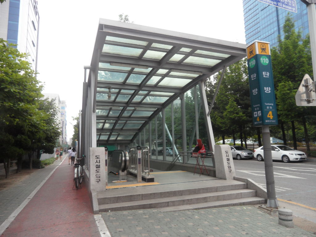 Exit of Tanbang Station